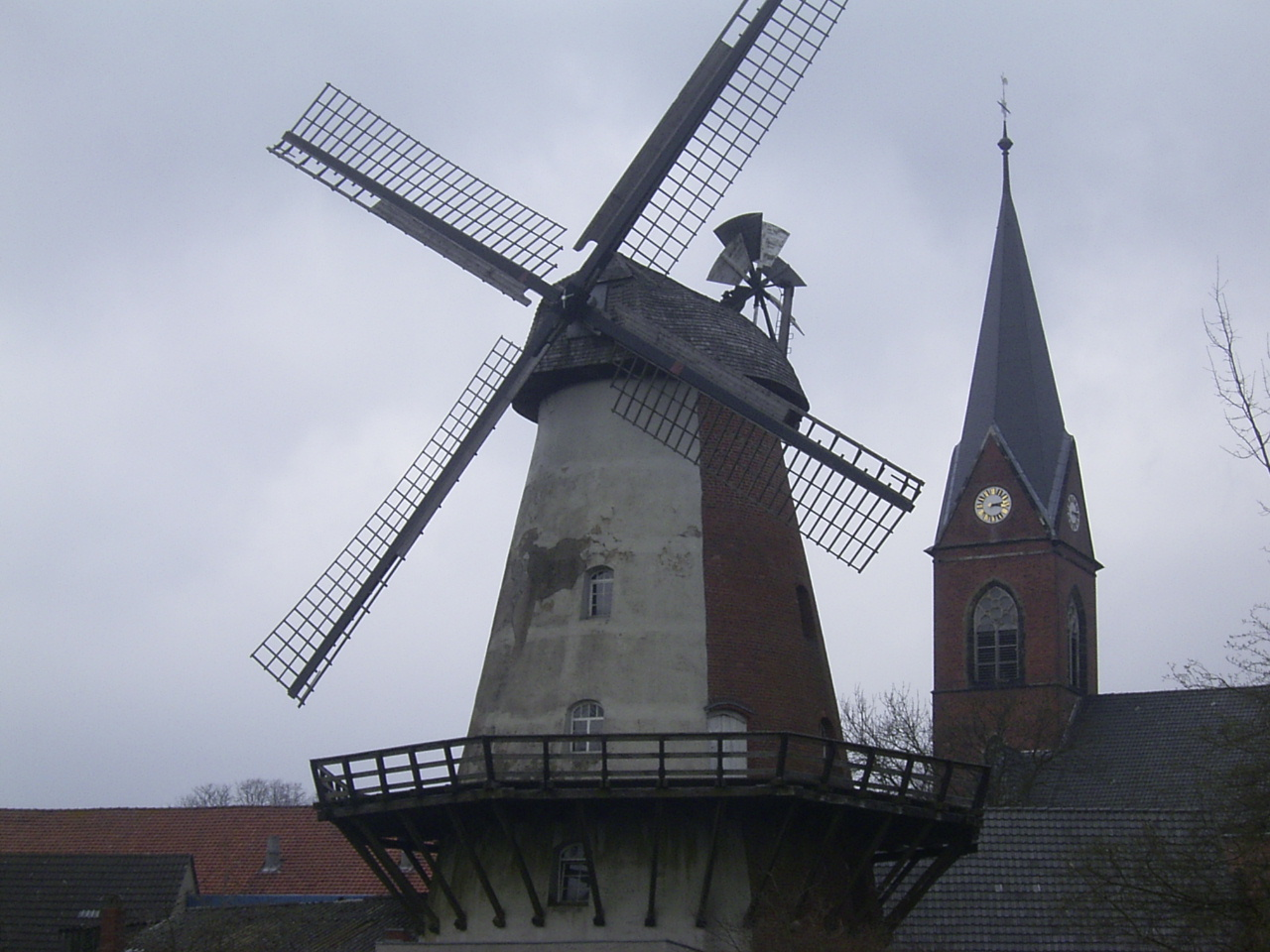 Combined wind-/water mill in Petershagen, Minden-Lübbecke, North Rhine-Westphalia, Germany. This image shows a heritage building in Germany, located in the North Rhine-Westphalian city Petershagen (no. 18). This image shows a heritage building in Germany, located in the North Rhine-Westphalian city Petershagen (no. 31).